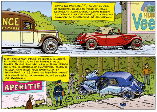 Extrait BD Traction